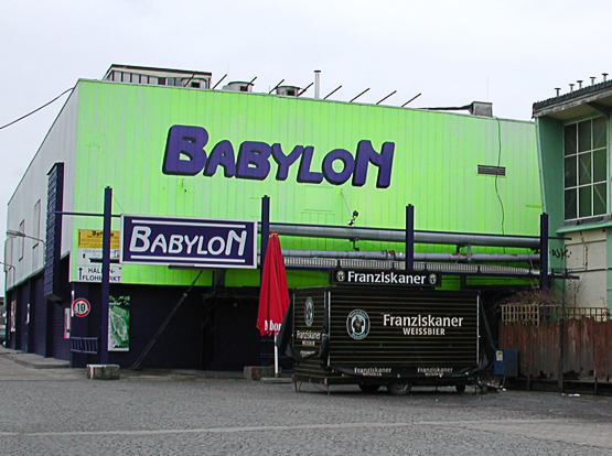 This image shows the nightclub Babylon, an electronic dance music venue in the former Kunstpark Ost in Munich that attracted up to 8000 partygoers at events like Deep Space Night.